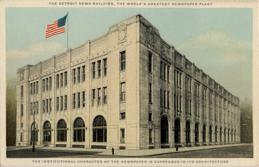 The Detroit News Building, The World's Greatest Newspaper Plant, The Institutional Character of the Newspaper is expressed in its Architecture